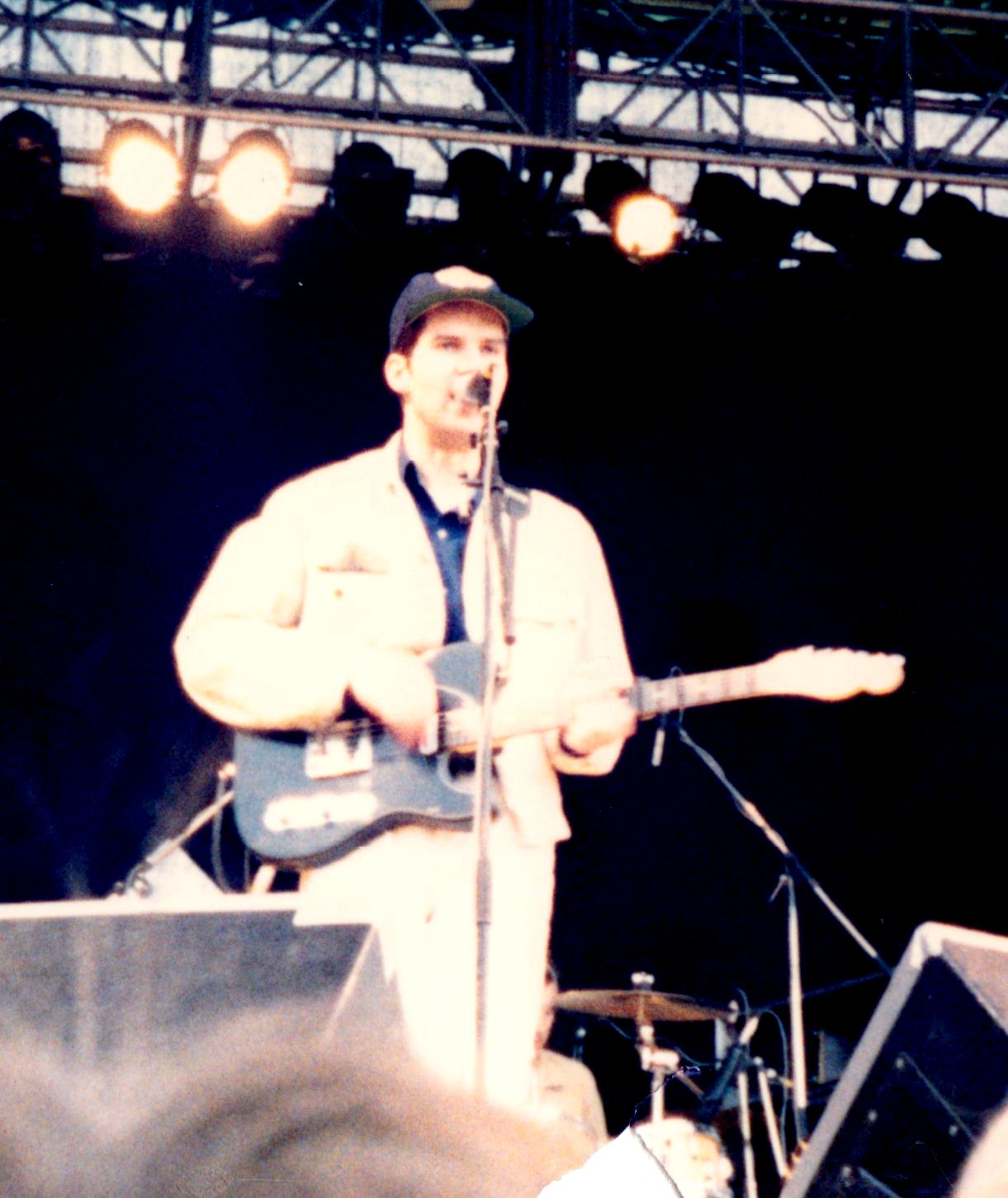 Lloyd Cole and the Commotions, concert in cologne Germany, ~1987